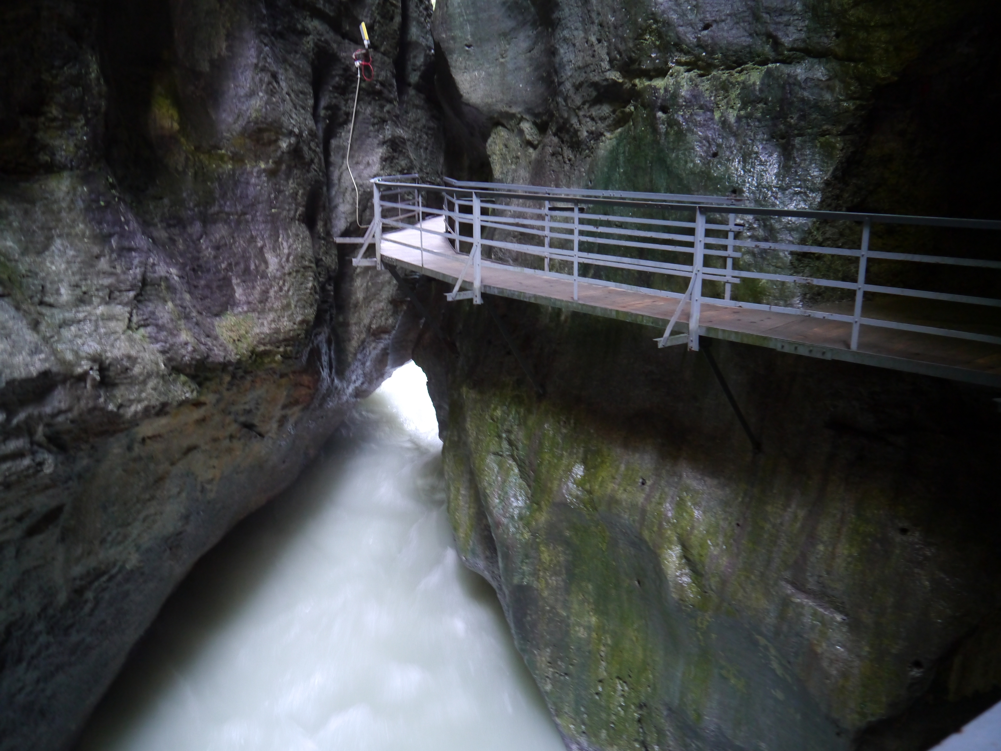 Aare Gorge near Meiringen, Canton of Bern, Switzerland